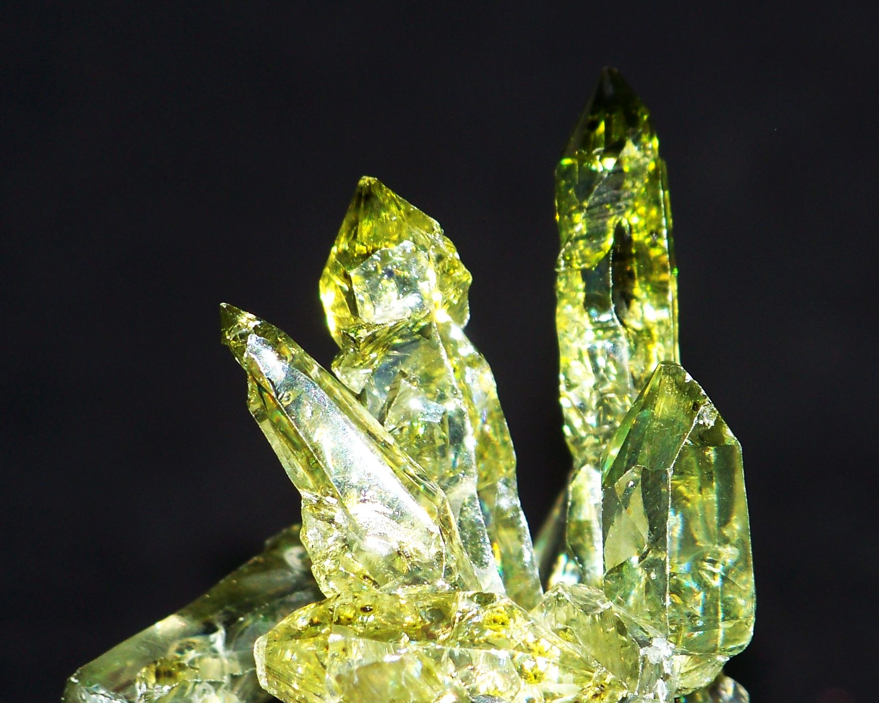 Synthetic zincite crystals from a zinc smelter